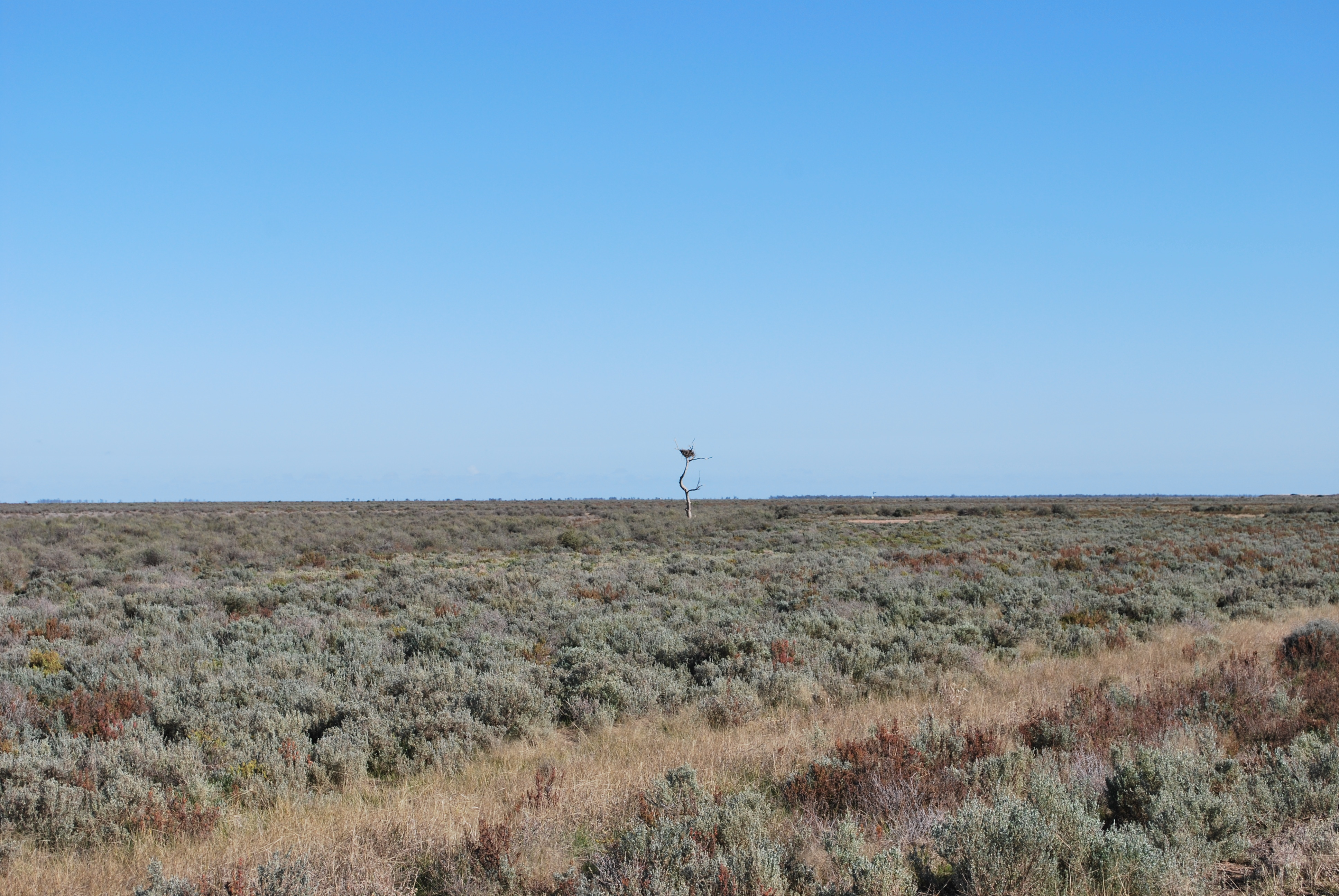 The Old Man Plain at Booroorban, New South Wales as seen from the Cobb Highway